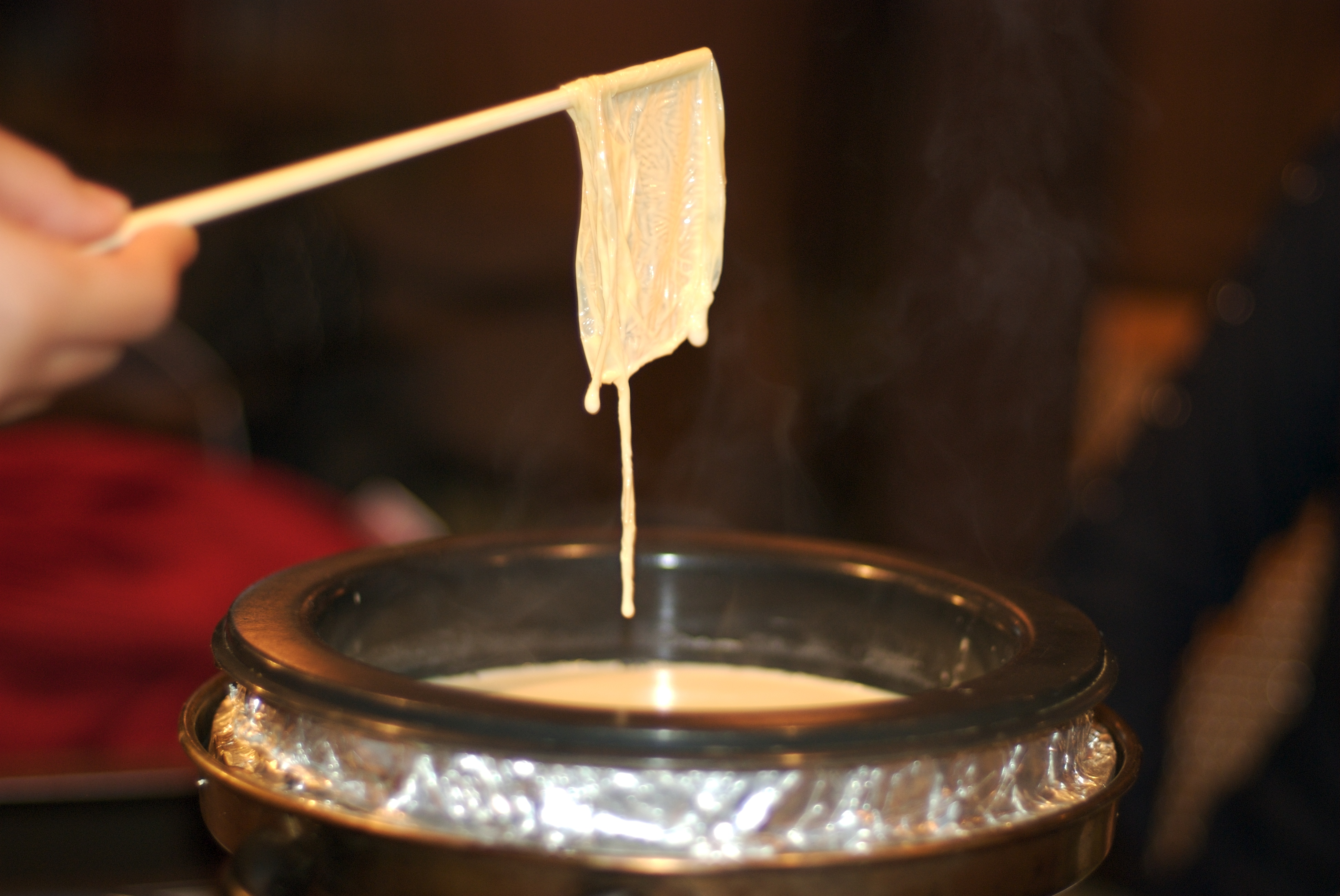 Yuba is a kind of tofu made by boiling unsweetened soy milk. It is very rich and one of my favorite foods!